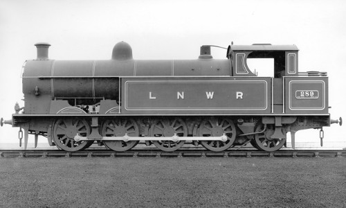 Photograph of LNWR engine No. 289 0-8-2 Tank.jpg